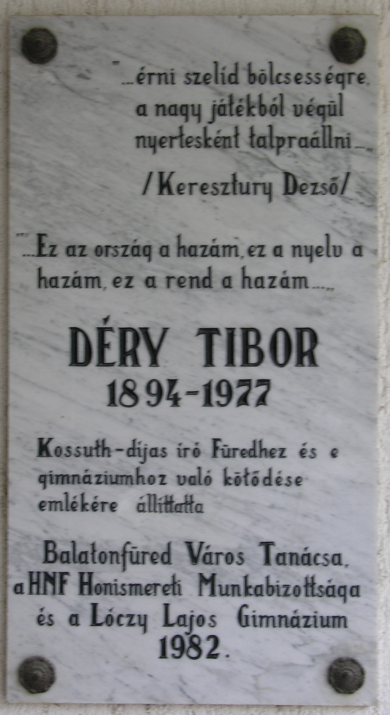 Commemorative plaque of Tibor Déry in Balatonfüred, Ady Endre Street No 40